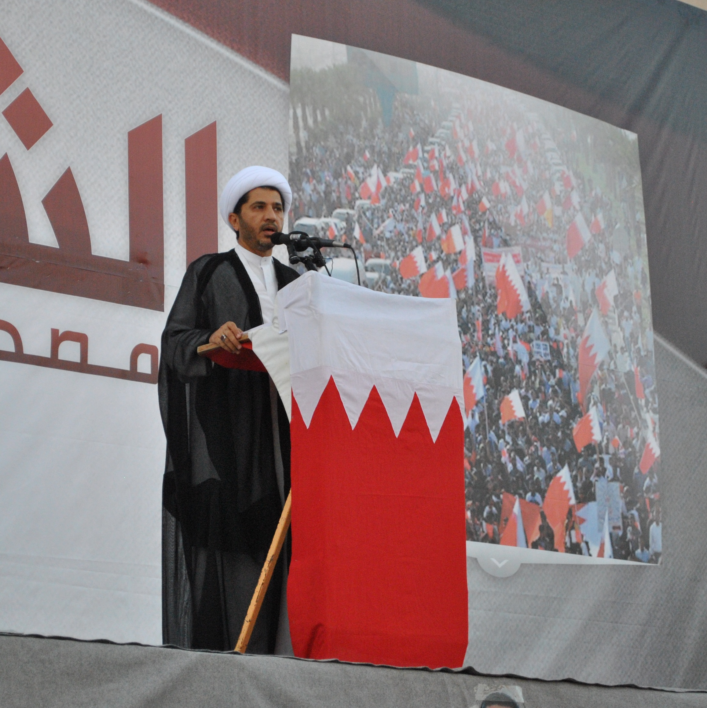 Cleric Ali Salman, head of Al Wefaq delivering a speech during a pro-democracy sit-in in Muqsha'a 2